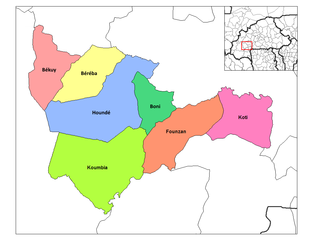 This map has been uploaded by Osiris fancy from to enable the Wikimedia Atlas of the World. Original uploader to was Rarelibra. Osiris fancy is not the creator of this map. Licensing information is below. Map of the departments of Tuy province in Burkina Faso. Created by Rarelibra 03:38, 30 September 2006 (UTC) for public domain use, using MapInfo Professional v8.5 and various mapping resources.